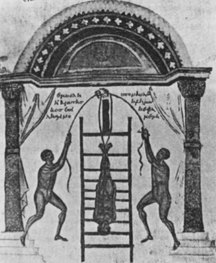 This is an illustration from a medieval book describing a treatment of Hippocrates